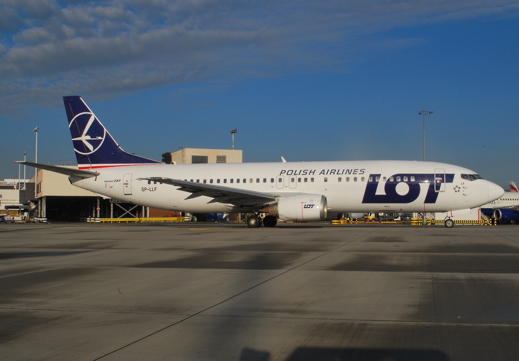 Boeing 737-45D taxying out of Kilo cds